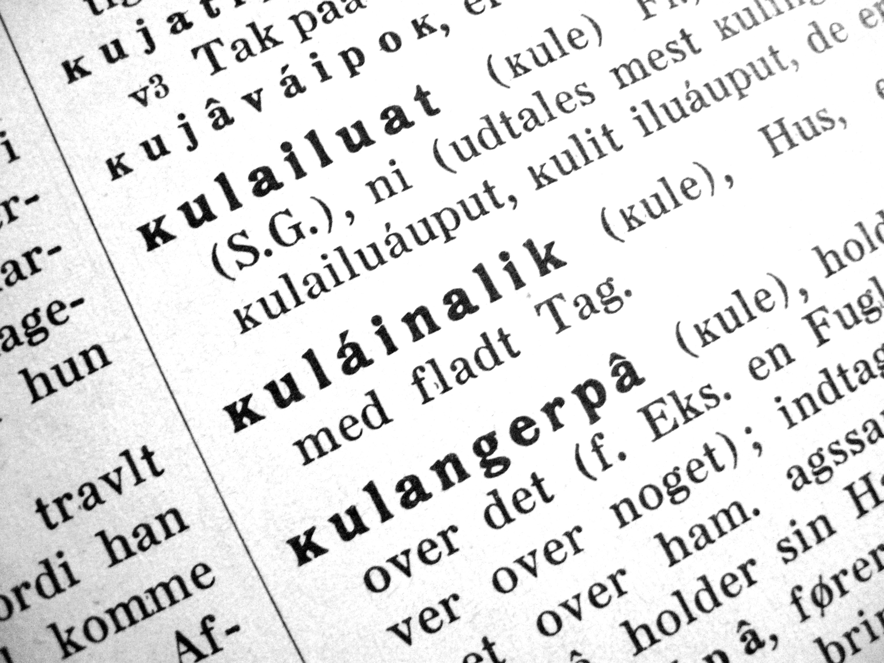 Kra (Κʻ / ĸ), a character formerly used to write the Kalaallisut language of Greenland, photo of a page in a Greenlandic-Danish dictionary